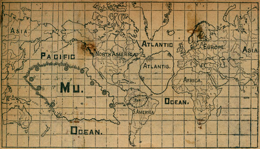 Map from newspaper clipping.